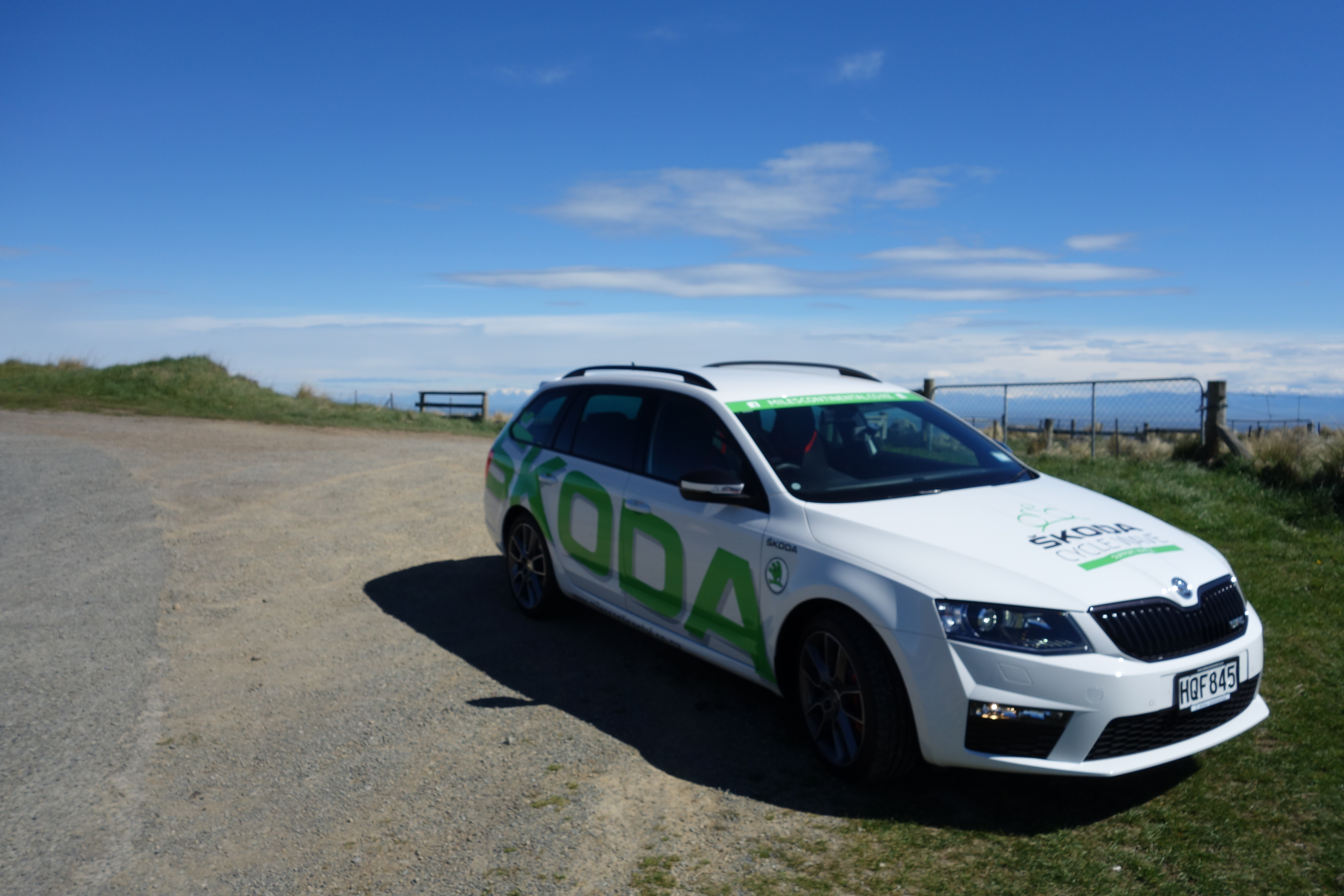 The 2014 ŠKODA Octavia RS wagon on the Port Hills of Christchurch, New Zealand. Sign-written for the 2015 Le Race. Find out more